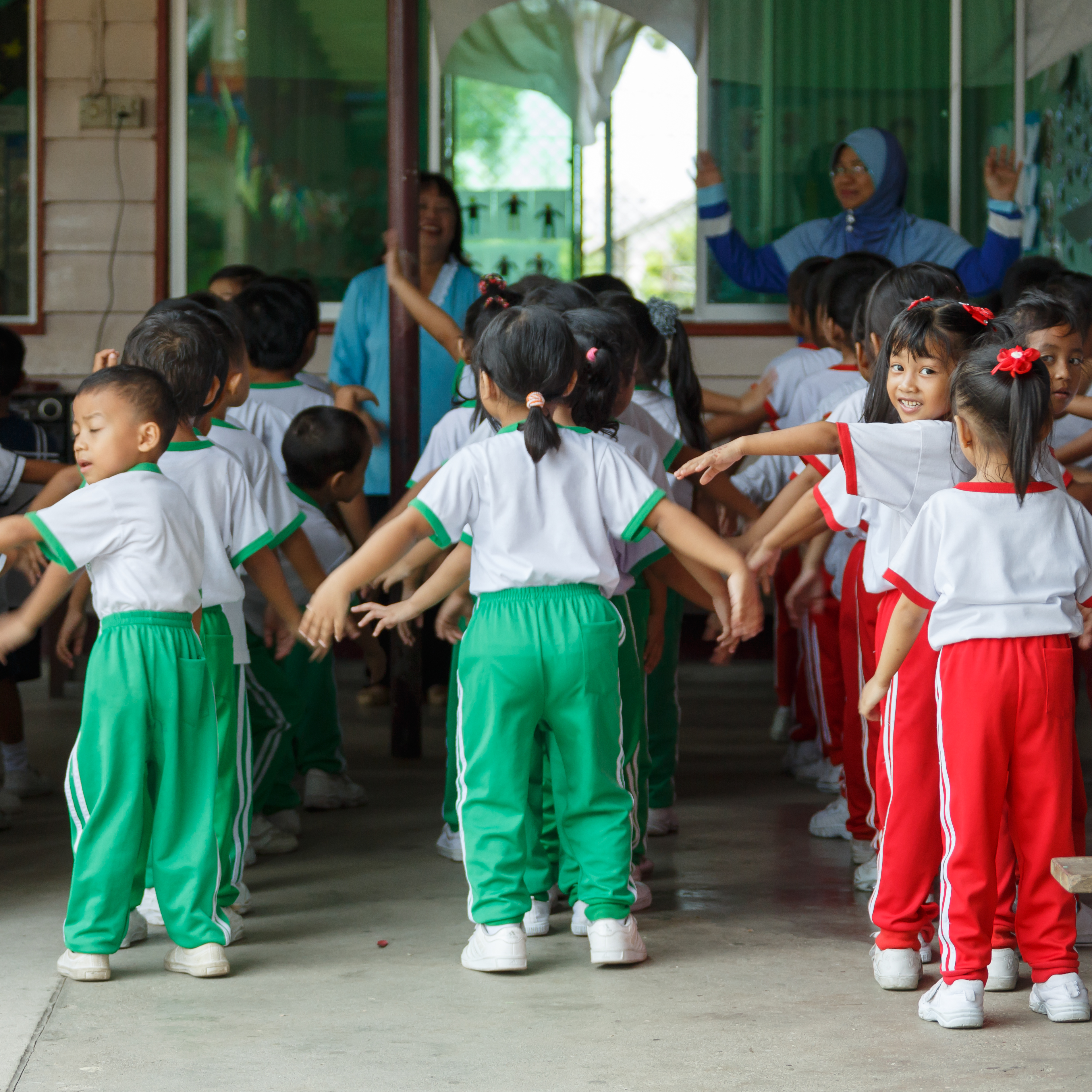 Tawau, Sabah: Children of Tadika Holy Trinity (Holy Trinity Kindergarten) doing some sports exercises